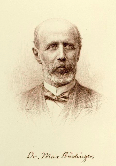 Portrait of Max Büdinger (1828–1902)